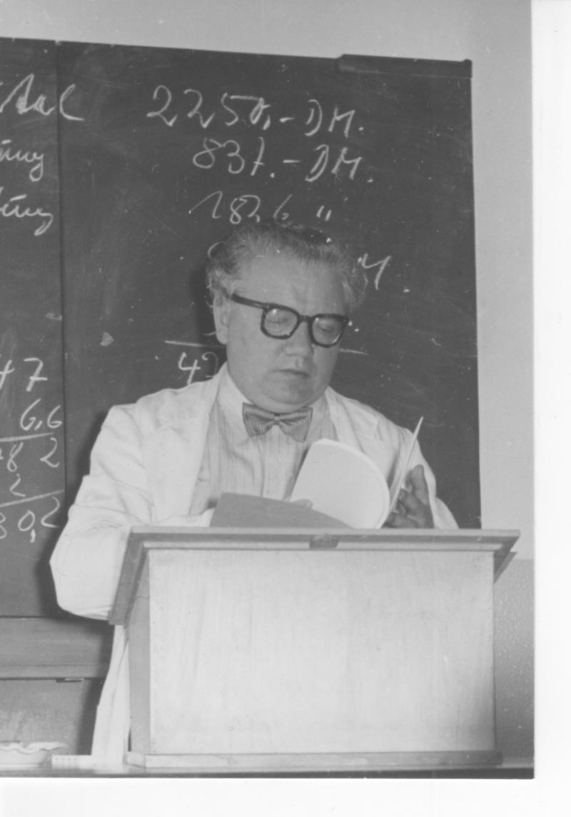 Hans-Karl Möhring (1899-1970), director of the Gärtnerische Lehr- und Versuchsanstalt zu Friesdorf, teaching in the early 1960s.